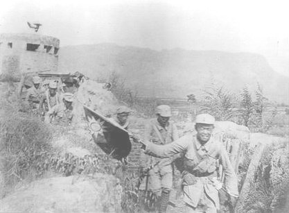 Eight Route Army soldier with Blue Sky Red Sun flag.八路軍收復娘子關的照片中, 一位八路軍戰士手持國旗歡樂的跑在長城上